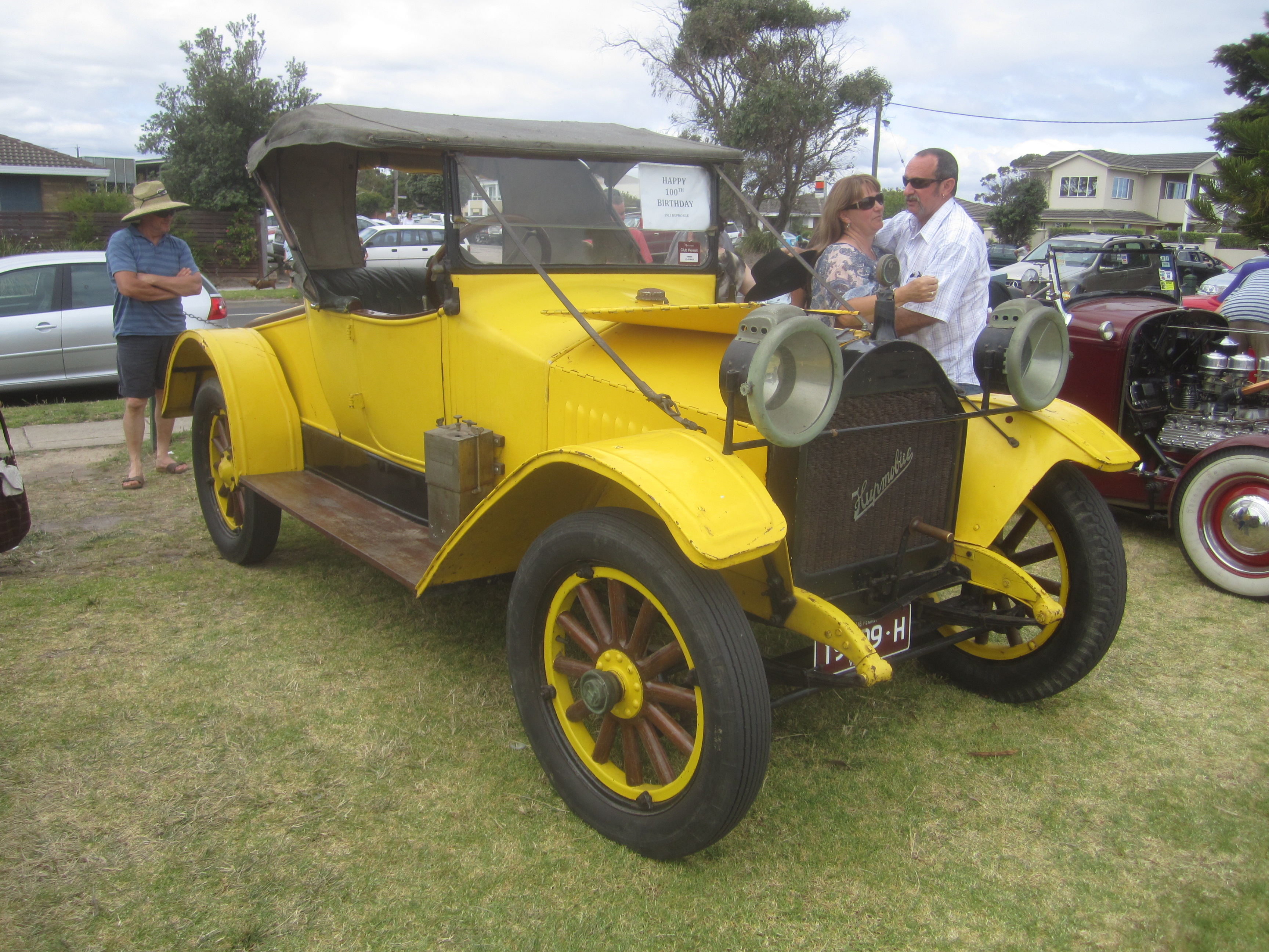 This car is 100 years old this year, the Hupmobile was built in Detroit from 1909-40. This the Model 32, stood for 32 horsepower, featured typical brass fittings of the era